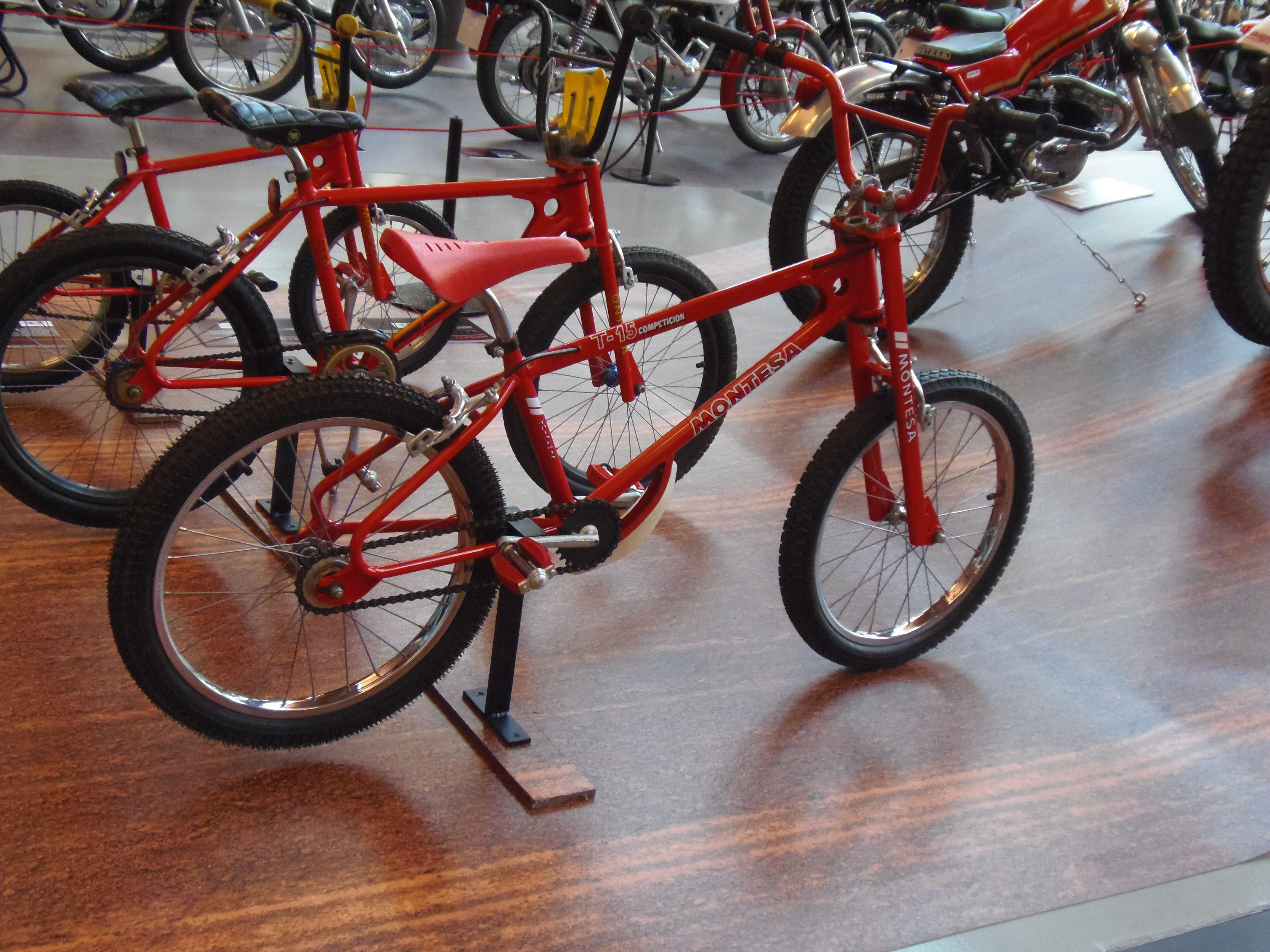 Montesita T-15, 1981